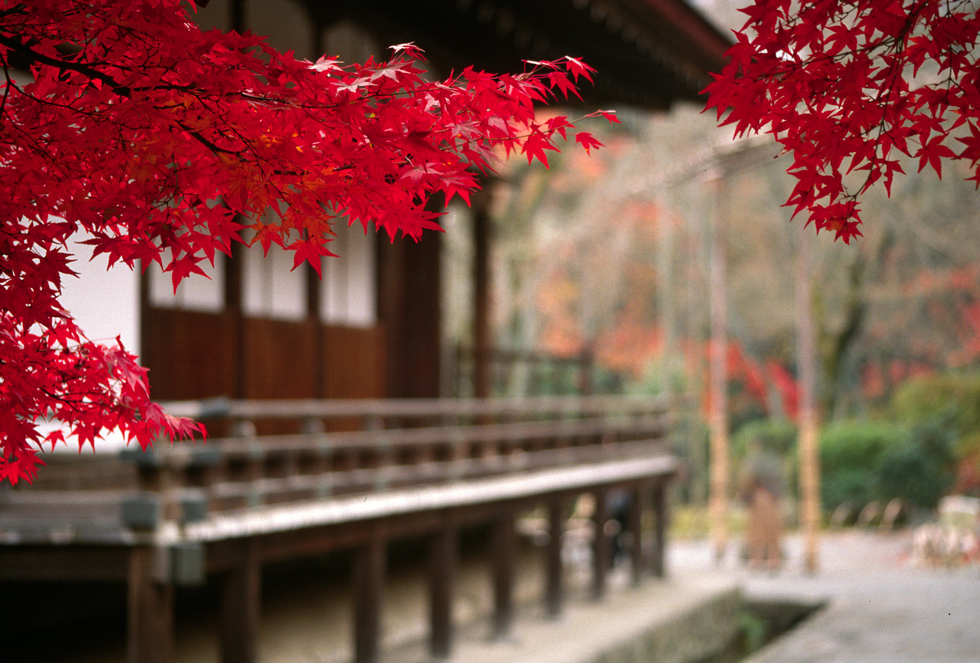 Maple leaves in front of a building at Tenryuji, Kyoto, Japan. I took the photo and contribute my rights in the file to the public domain; individuals and organizations retain rights to images in it.